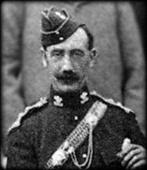 Captain Charles Toler McMurragh Kavanagh (10th Hussars) pictured as Adjutant to the 6th Yeomanry Brigade (Prince Albert's Own Leicestershire Yeomanry Cavalry and Derbyshire Yeomanry Cavalry) at Croxton Park, Staffordshire, in 1899.